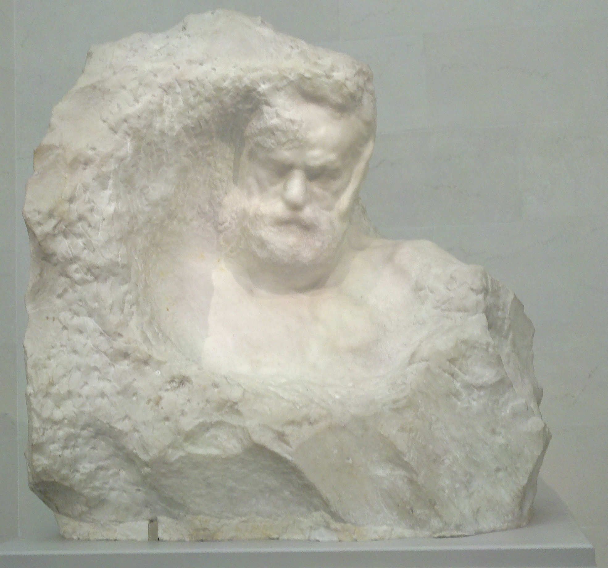 A bust of Victor Hugo by August Rodin at the Palace of the Legion of Honor in San Francisco (ca. 1917)[1]